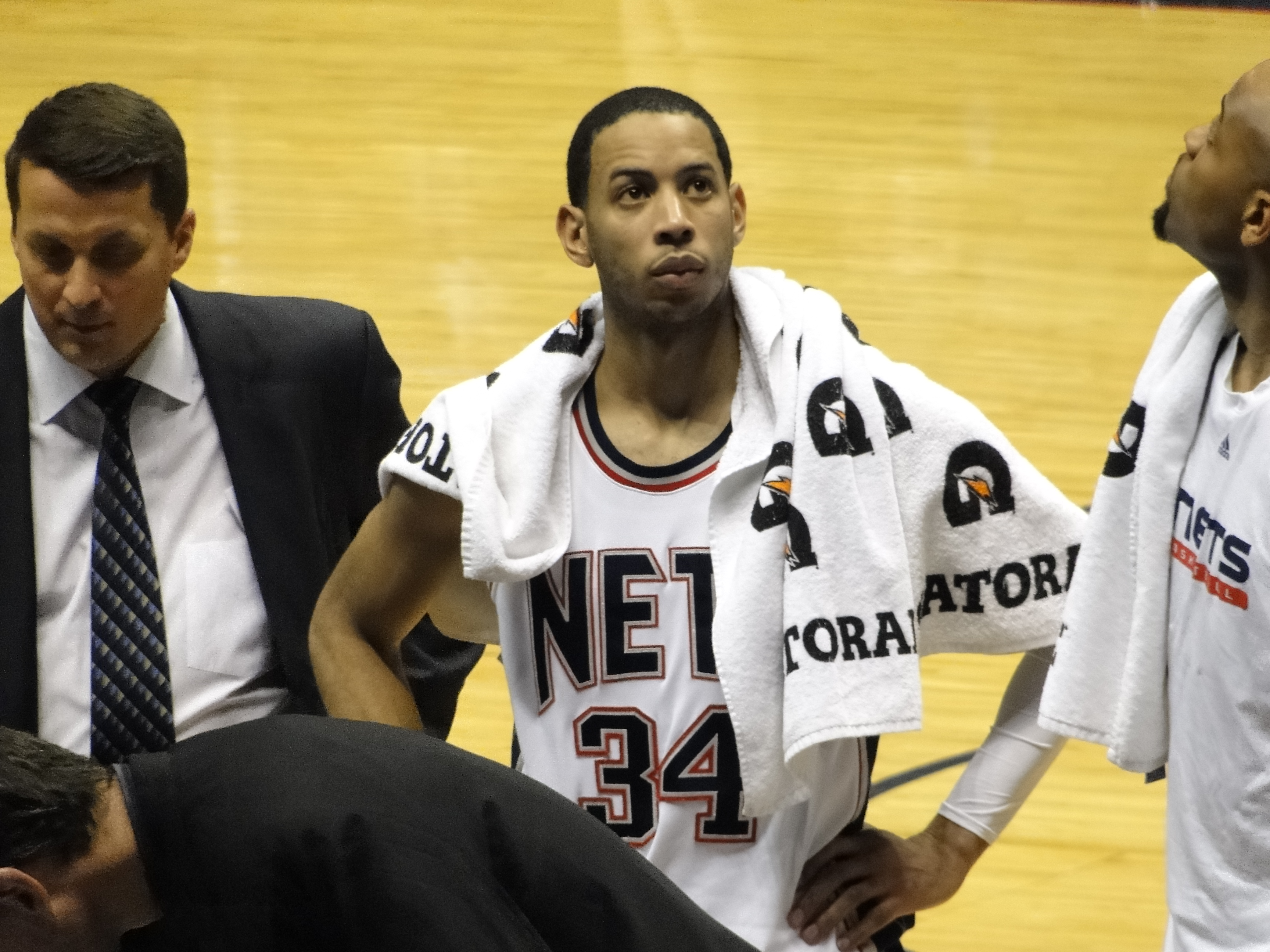 Devin Harris of the New Jersey Nets in 2009